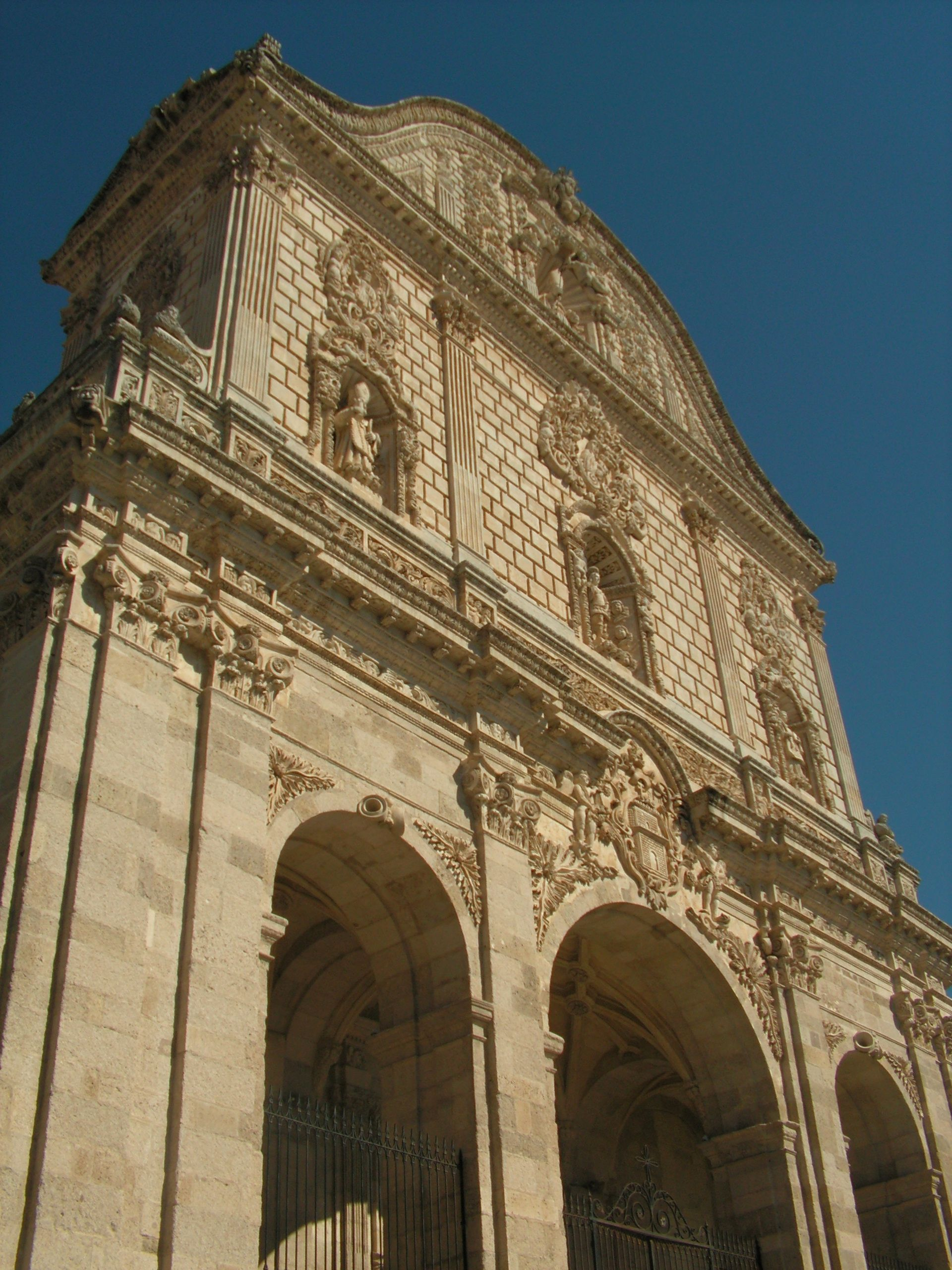 Church of St. Nicholas in Sassari, Sardinia, Italy